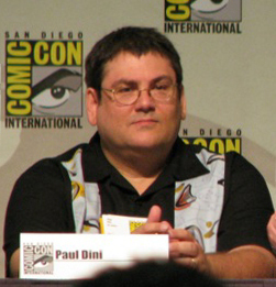 Cropped from original to show Paul Dini at San Diego Comic Con 2007.